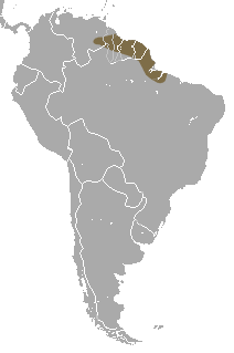 Pinheiro's Slender Opossum (Marmosops pinheiroi) range